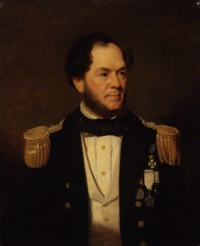 Painting of Admiral Sir Erasmus Ommanney